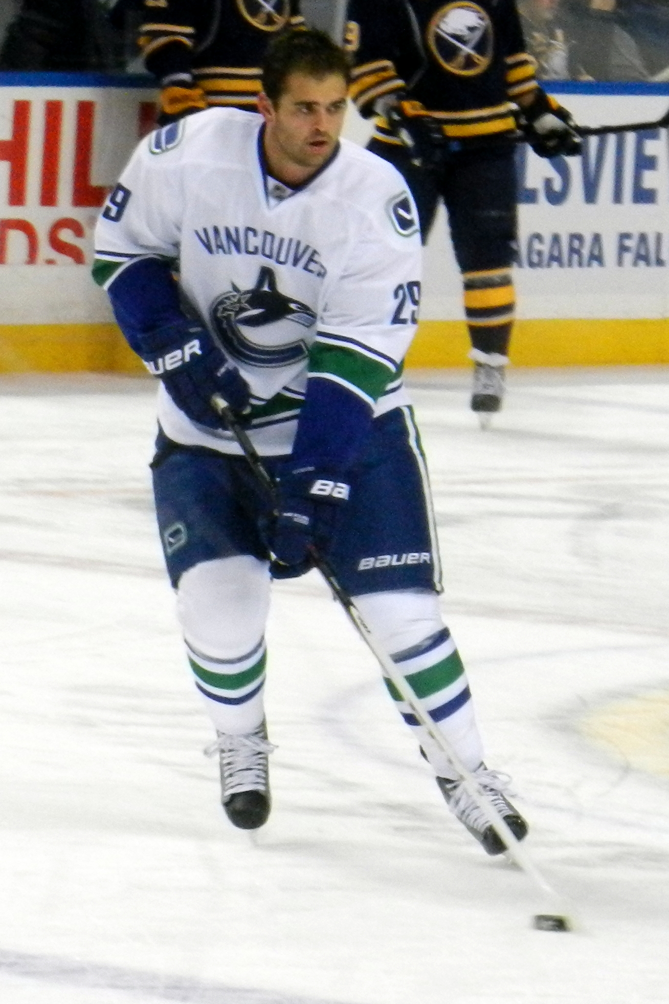 Tom Sestito with the NHL's Vancouver Canucks in warm-ups before a game vs. the Buffalo Sabres during the 2013-14 season